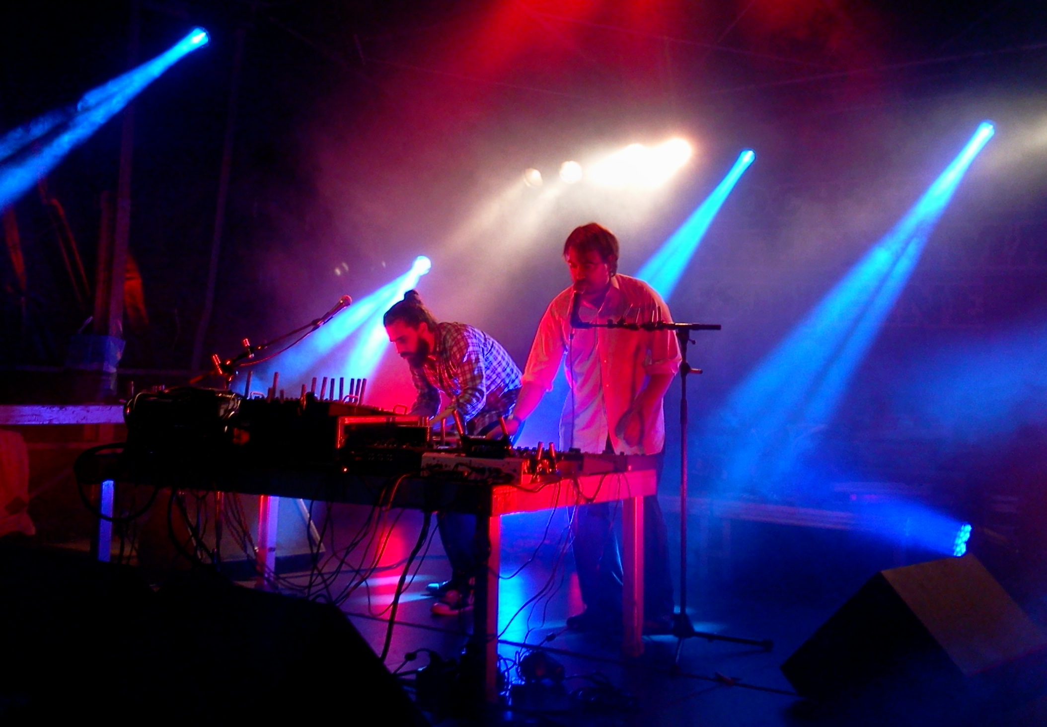 Swiss electro punk band Saalschutz playing a concert in Potsdam, Germany.